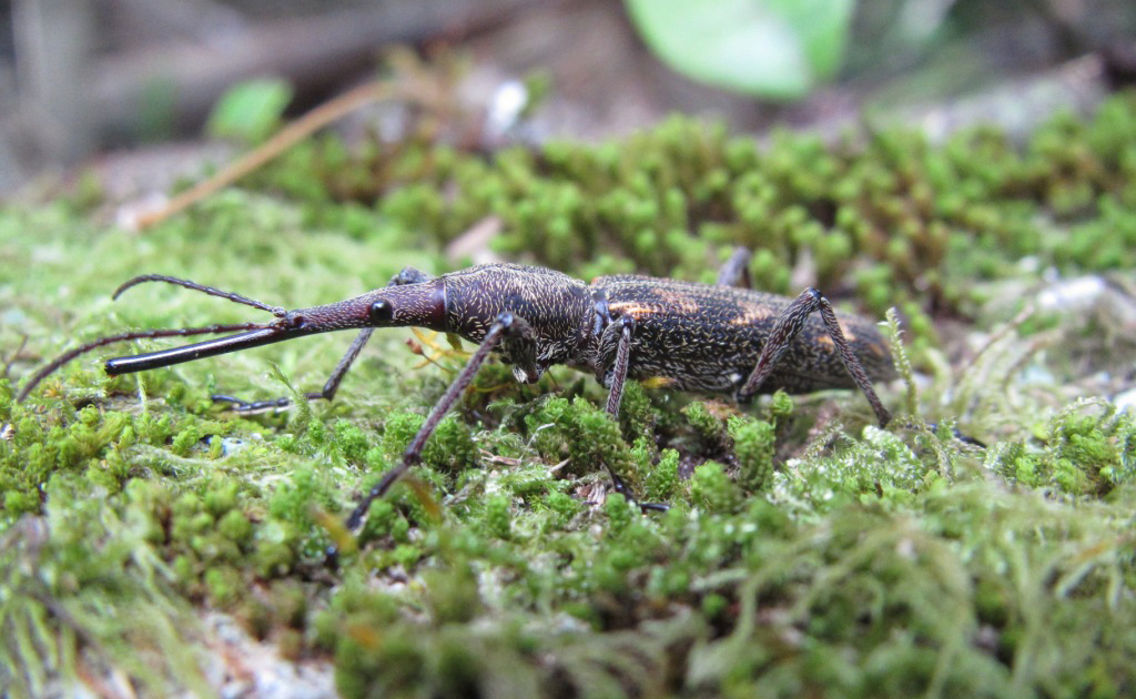 A female New Zealand giraffe weevil (Lasiorhynchus barbicornis) taken at Matuku Reserve. Having the antennae halfway back from the end of the rostrum allows the female to chew an egg-laying hole into a tree trunk.